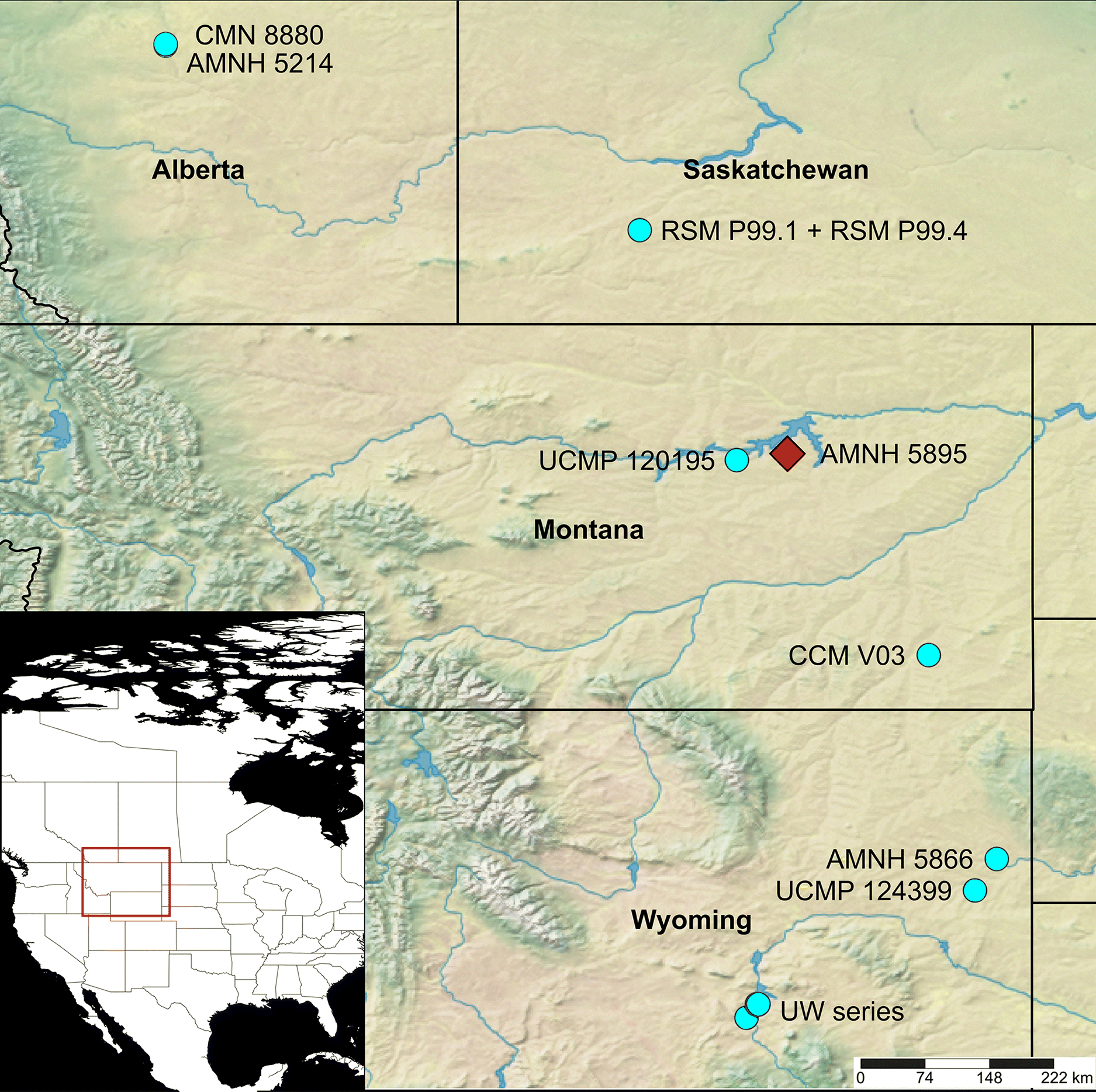 Distribution map of known Ankylosaurus magniventris fossils. The red diamond marks the location of AMNH 5895, the holotype of the genus. Map generated using SimpleMappr .